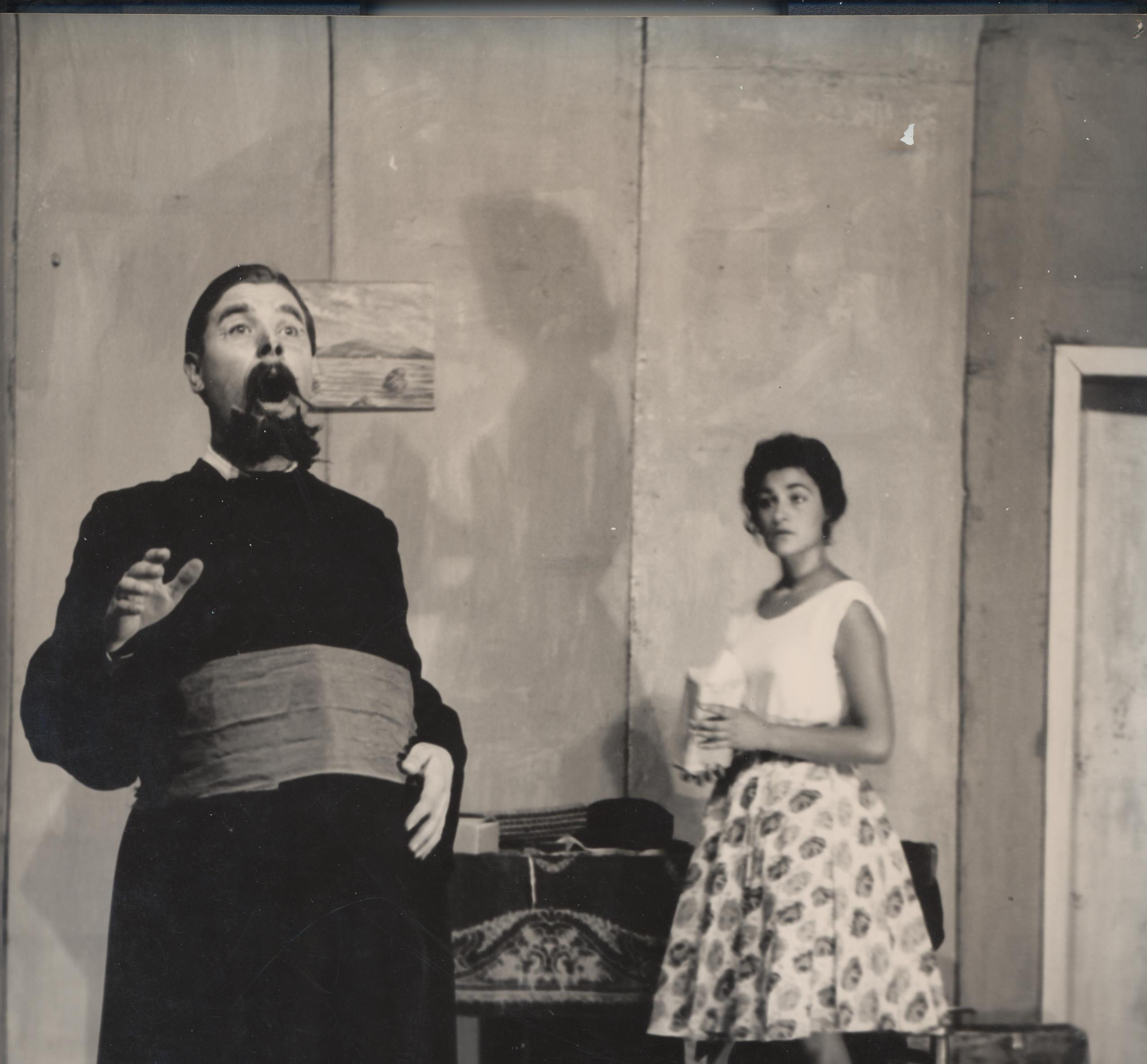 Actors of theater in Pirot 1960